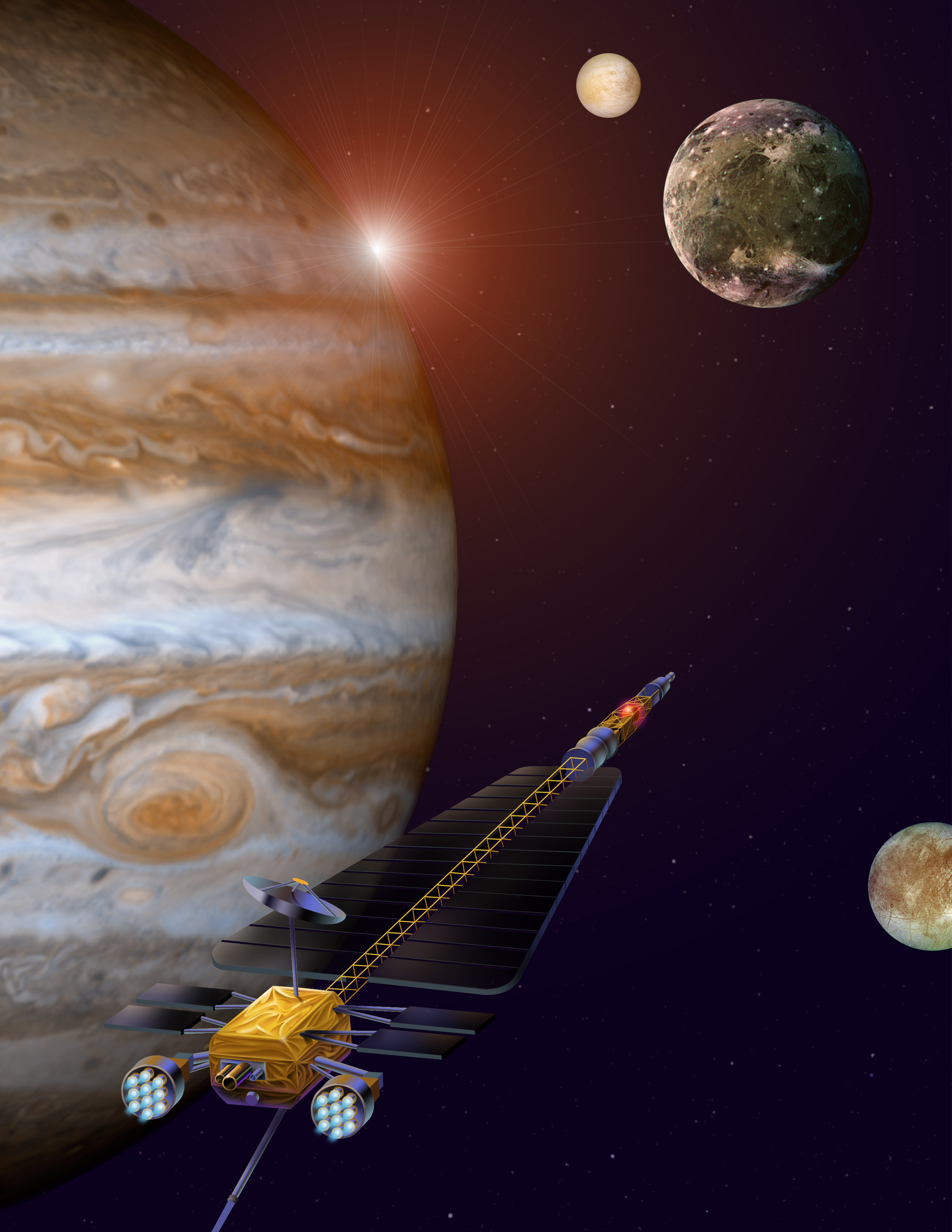 Artist's concept illustration of the Jupiter Icy Moons Orbiter, a cancelled unmanned NASA exploration craft.